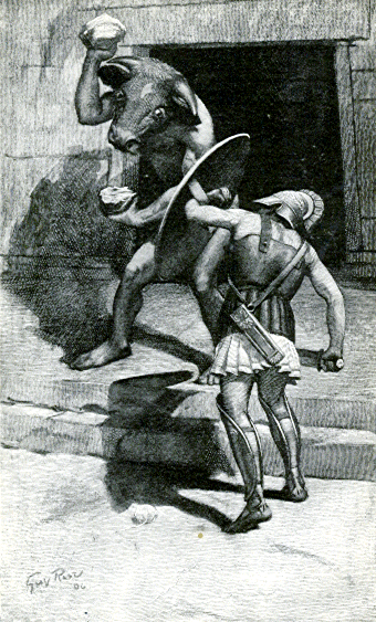 Elementary history of Greece, made up principally of stories about persons, givingat the same time a clear idea of the most important events in the ancient world and calculated to enforce the lessons of perseverance, courage, patriotism, and virtue that are taught by the noble lives described. Beginning with the legends of Jason, Theseus, and events surrounding the Trojan War, the narrative moves on to present the contrasting city-states of Sparta and Athens, the war against Persia,their conflicts with each other, the feats of Alexander the Great, and annexation by Rome.